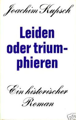 Book cover of Joachim Kupsch "Leiden oder triumphieren" 1964